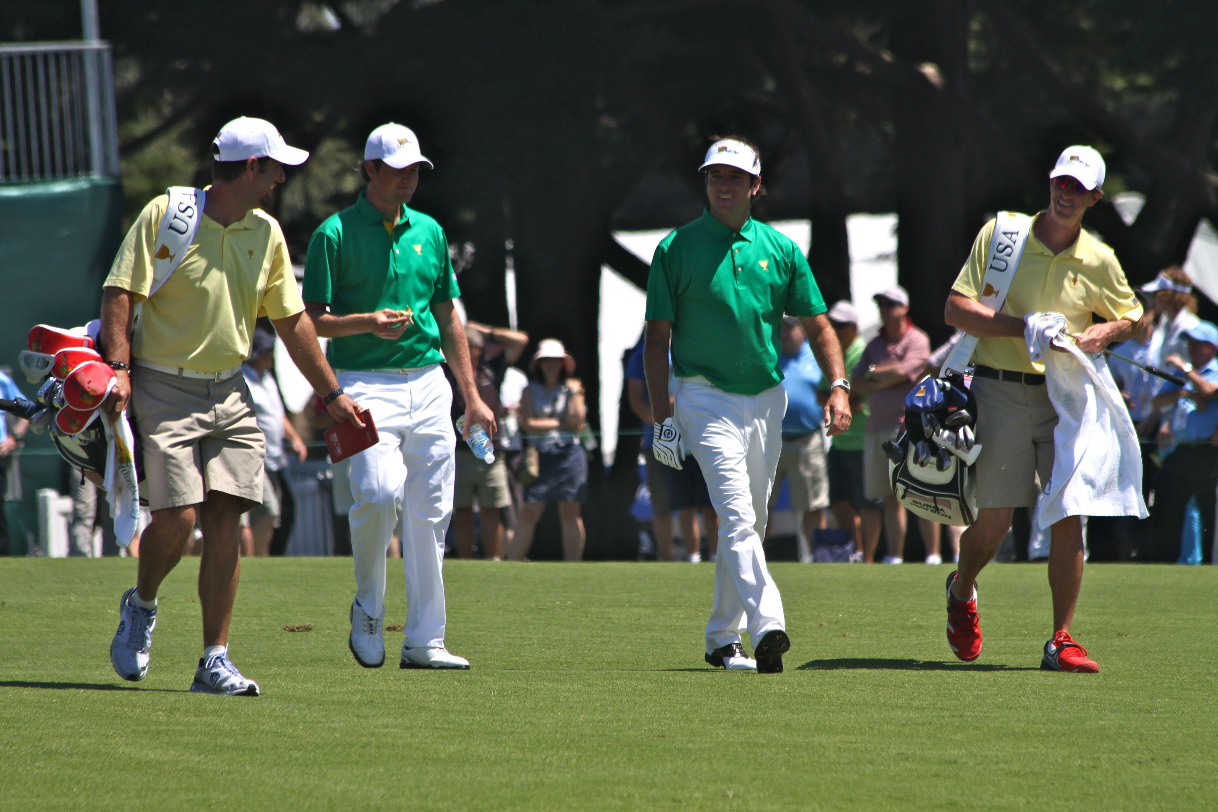 Webb Simpson and Bubba Watson at the 2011 Presidents Cup during a practice round on 15 November.